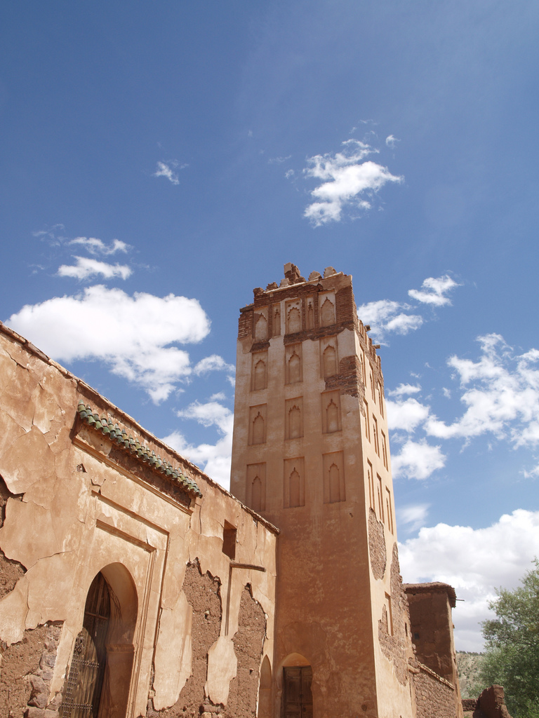 Kasbah of Telouet